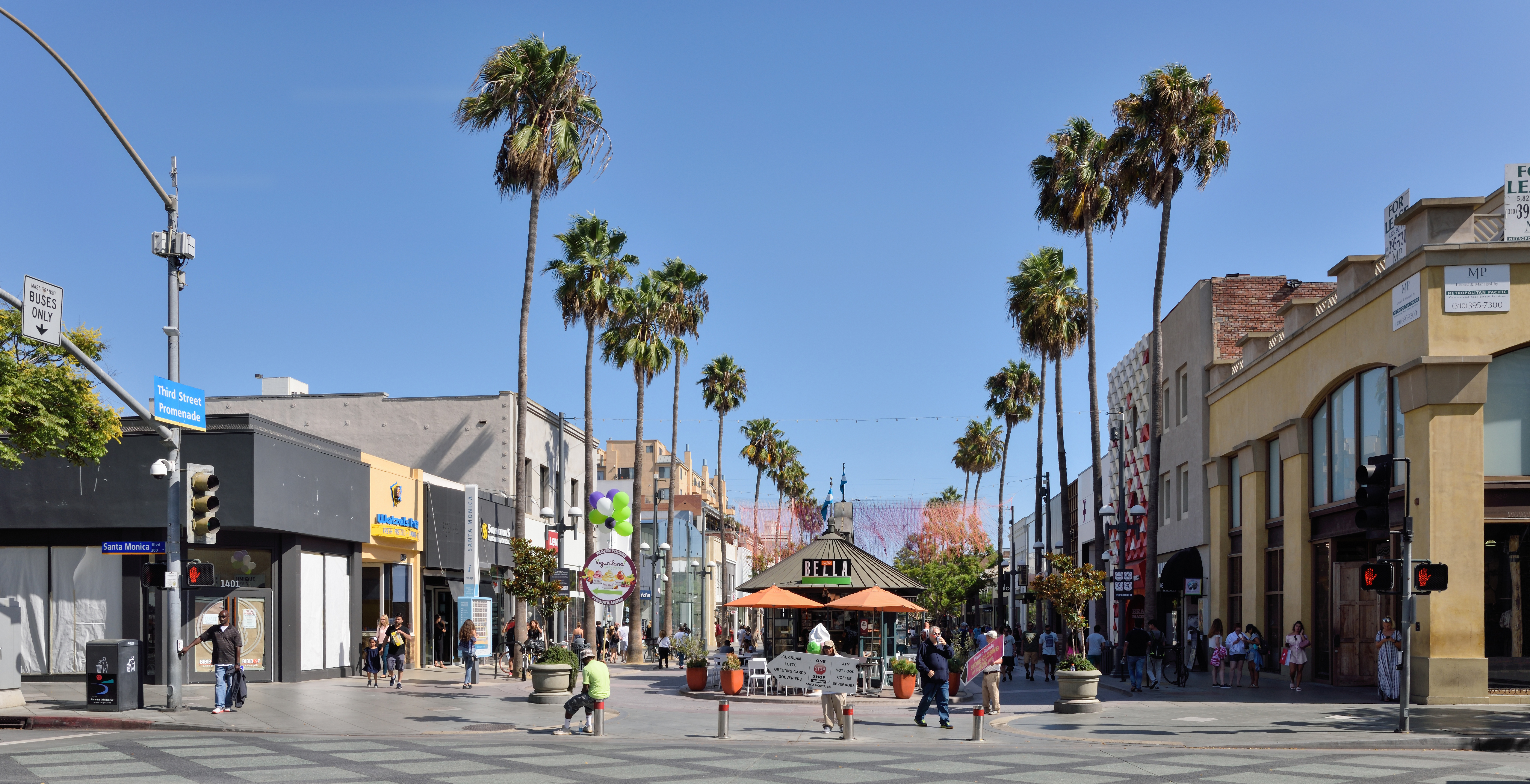 Santa Monica, California: Third Street Promenade towards SE. Promenade is a shopping, dining and entertainment complex in the downtown area of Santa Monica.